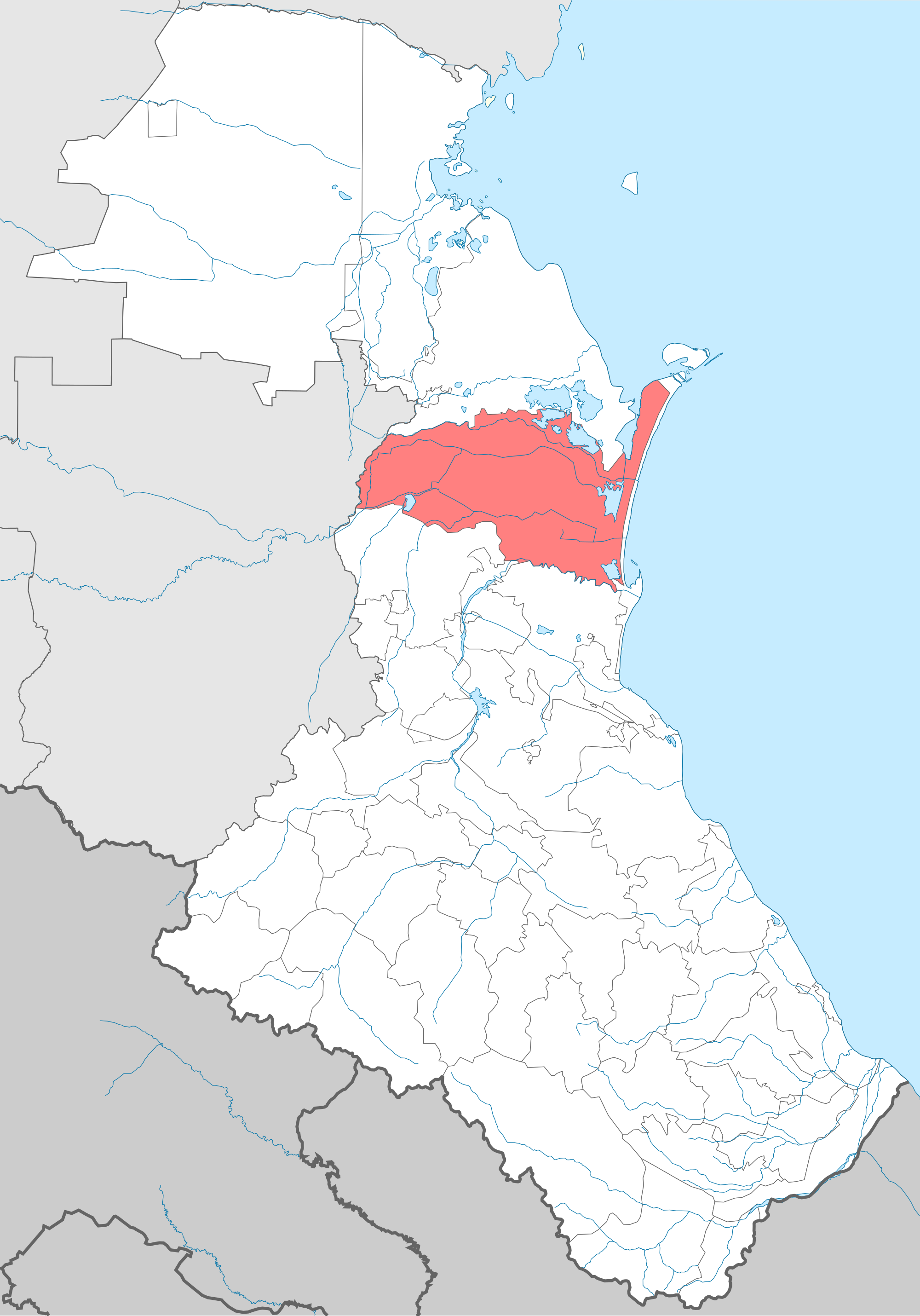 Babayurtovsky district. Locator Map of Dagestan (Russia)